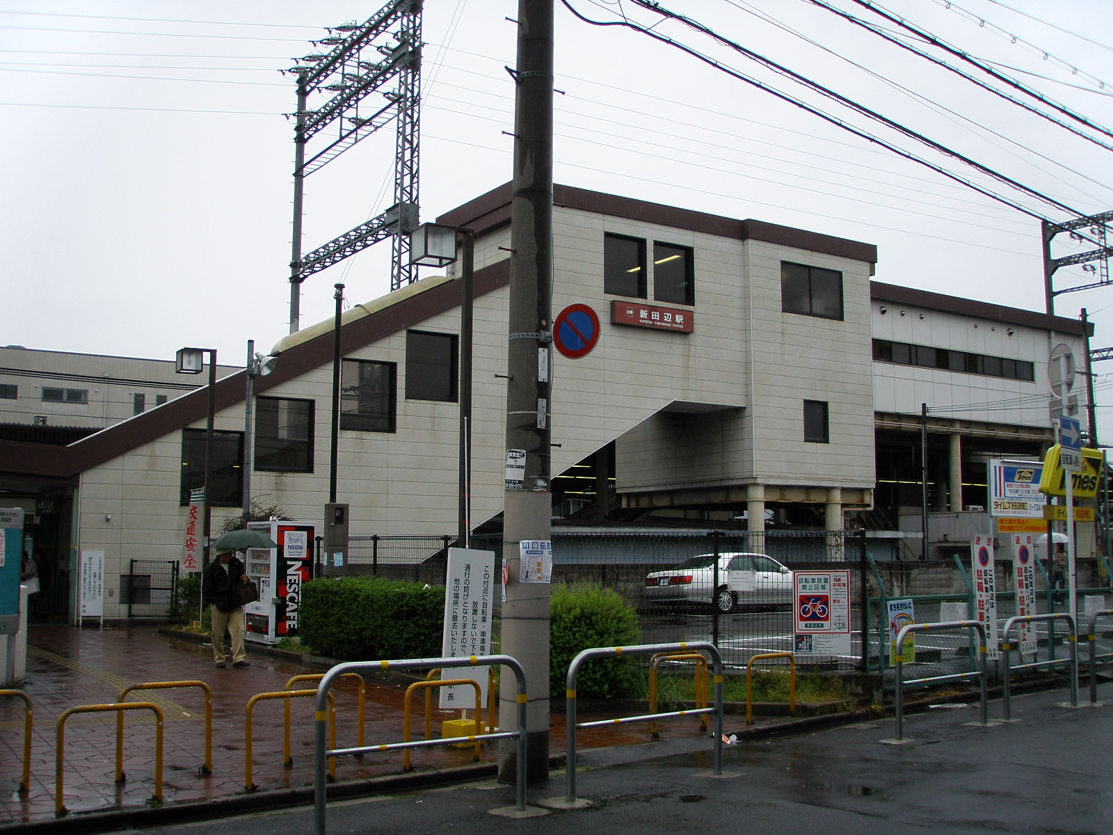 Kinki Nippon Railway Kyoto Line Shin-Tanabe Station East Gate